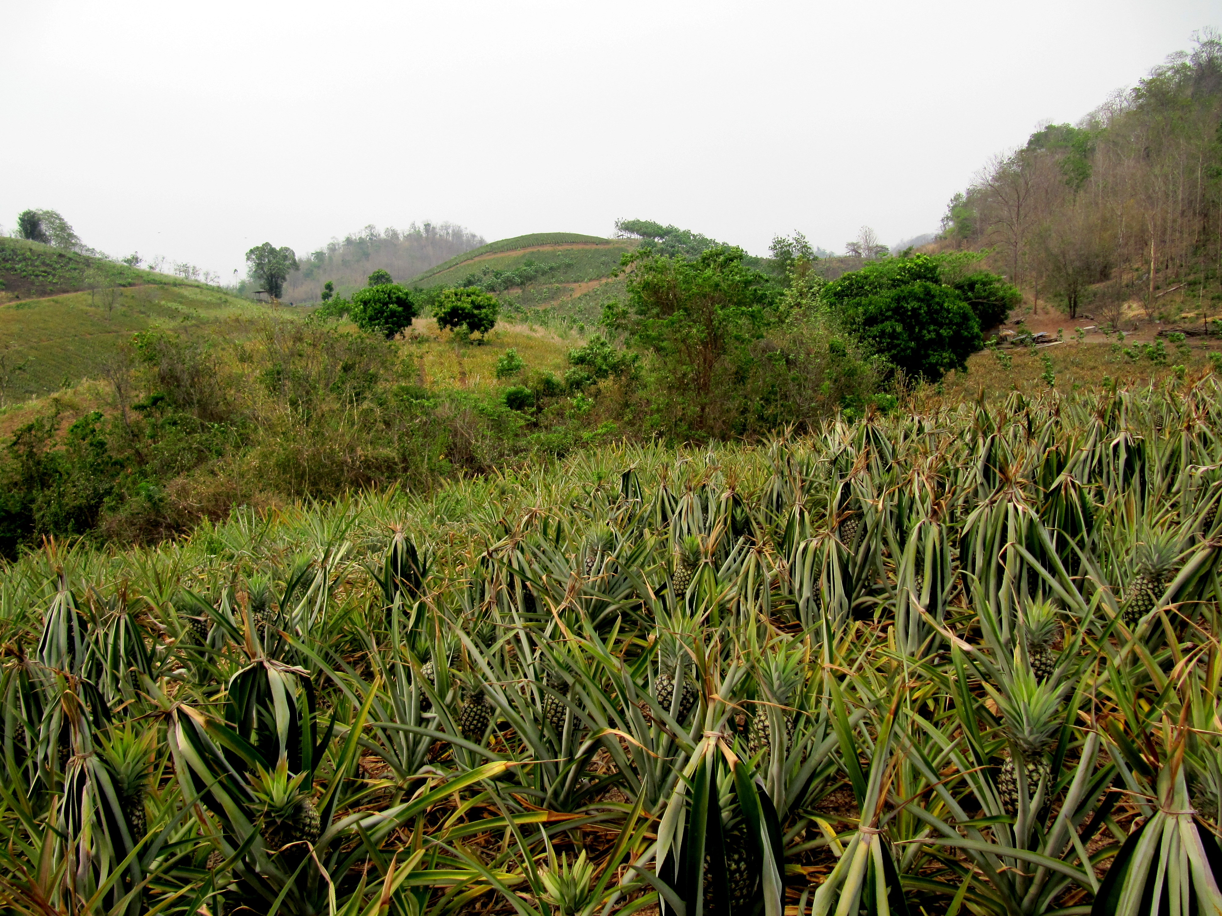 Pineaple field